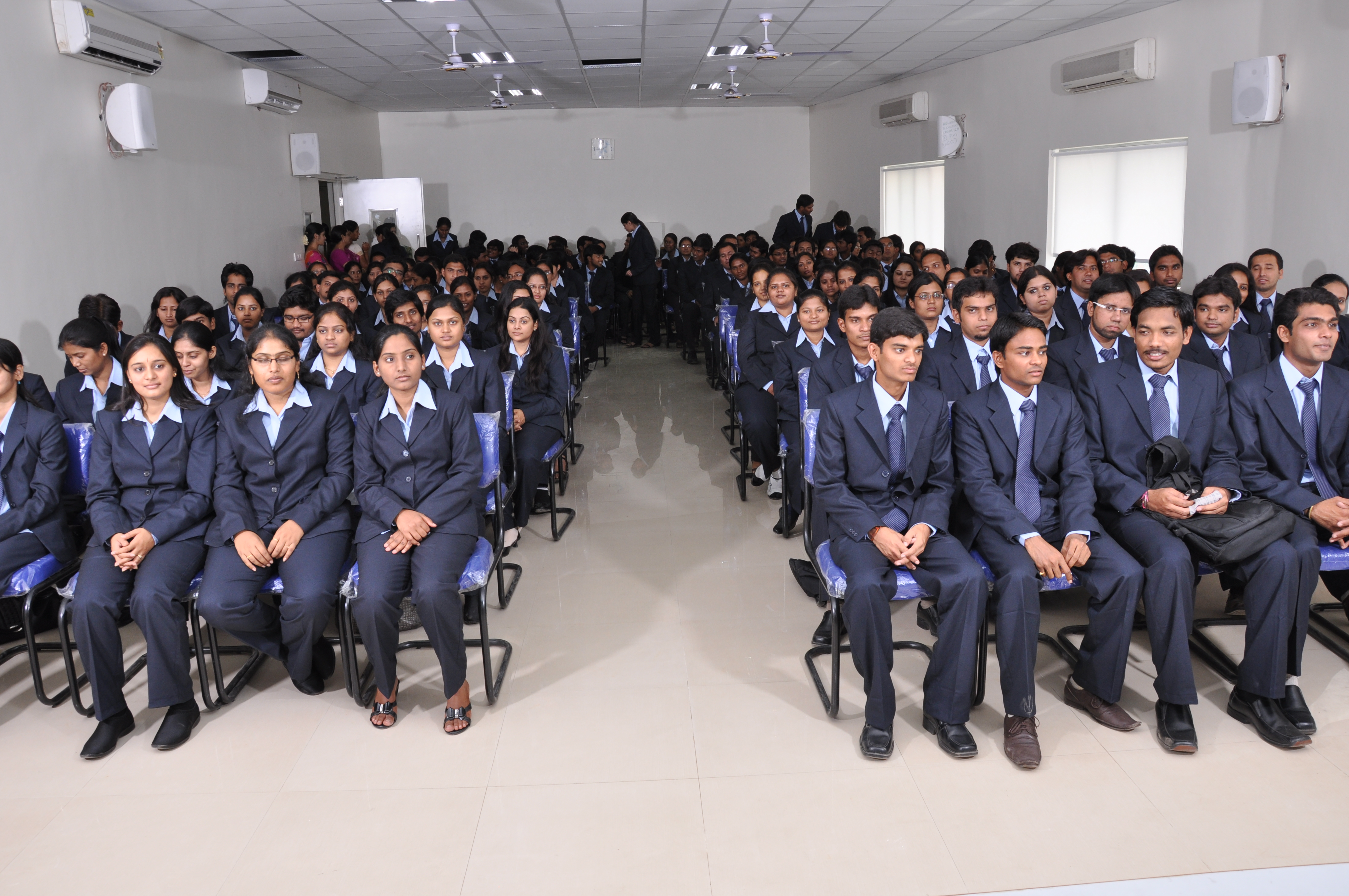 Badruka College Seminar Hall